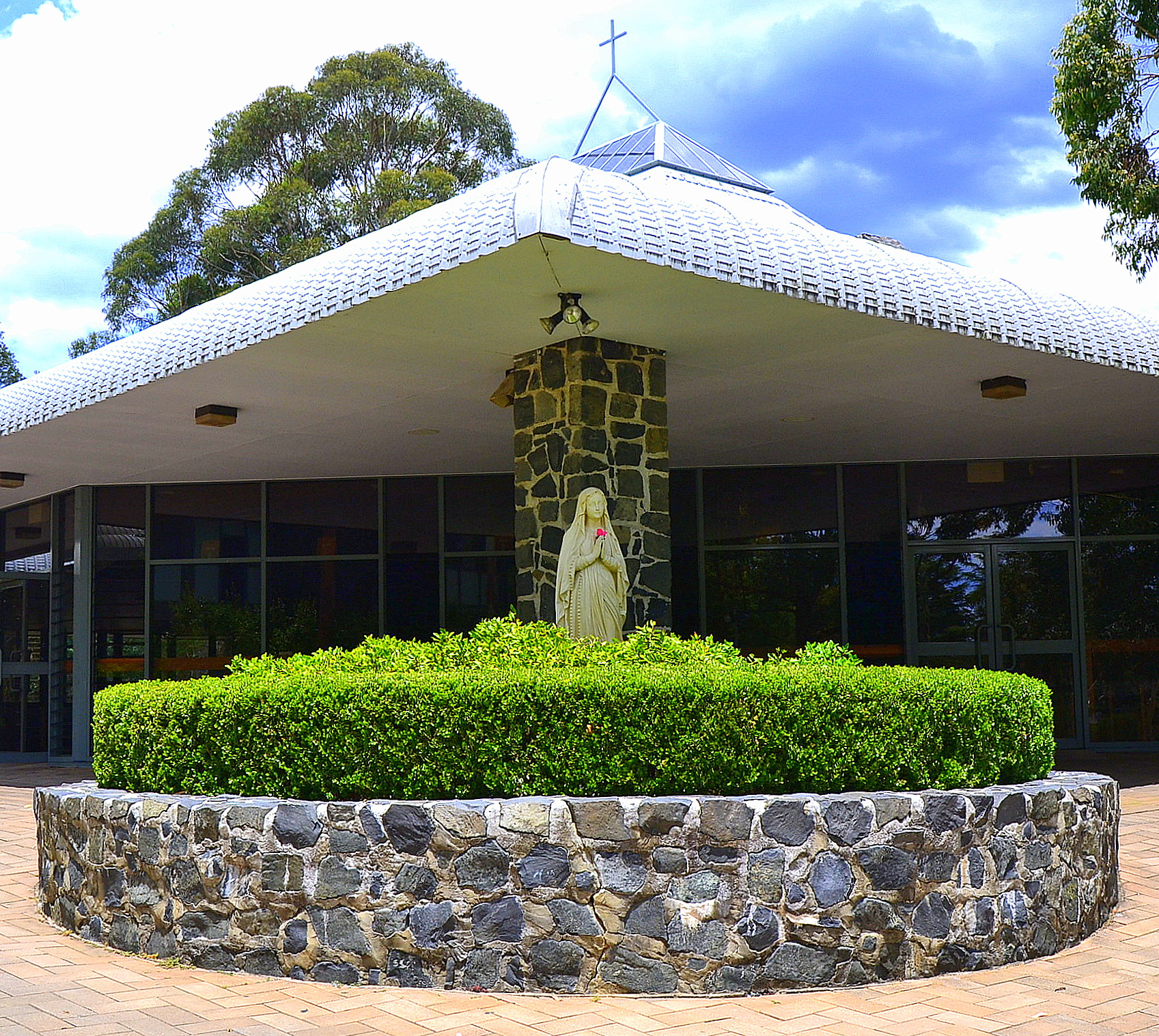 church, Waitara, Sydney